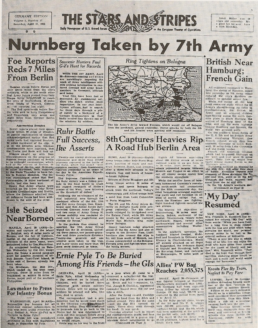 Stars and Stripes, headline: “Nurnberg taken by 7th Army”